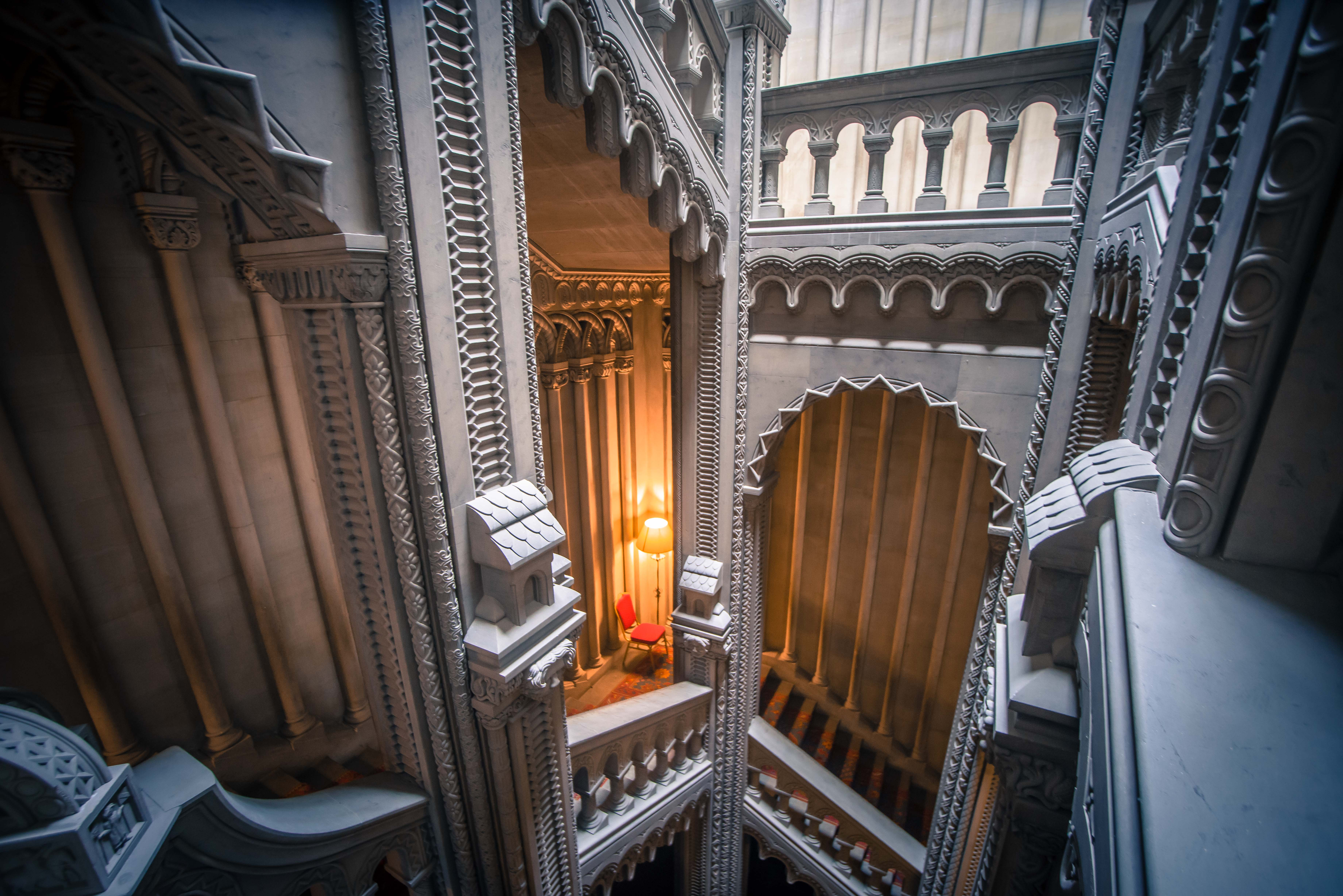 Interior of Penrhyn Castle, UK